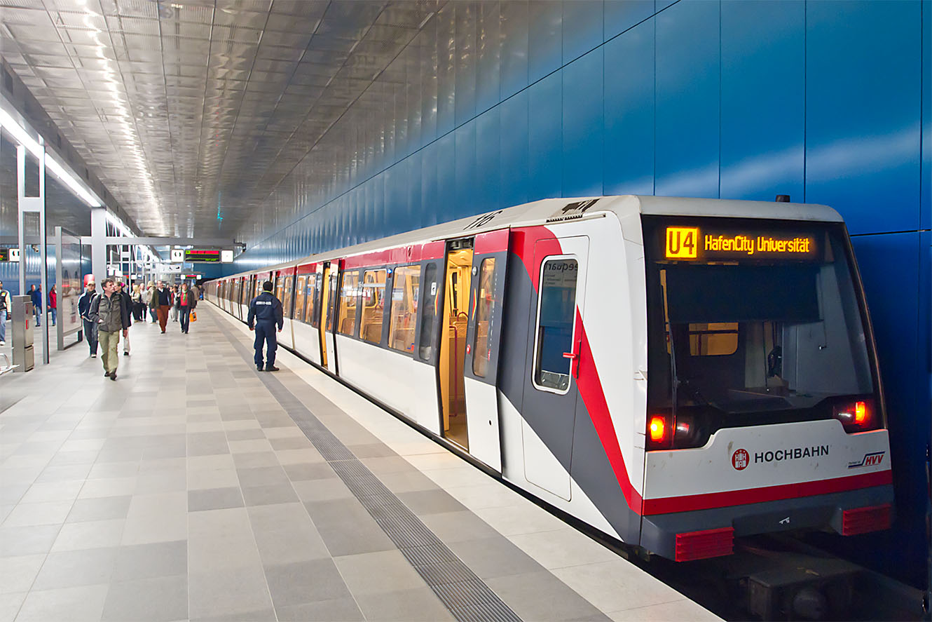 Train typ DT4 in the metro station Überseequartier, line U4, in Hamburg-HafenCity, Hamburg, Germany